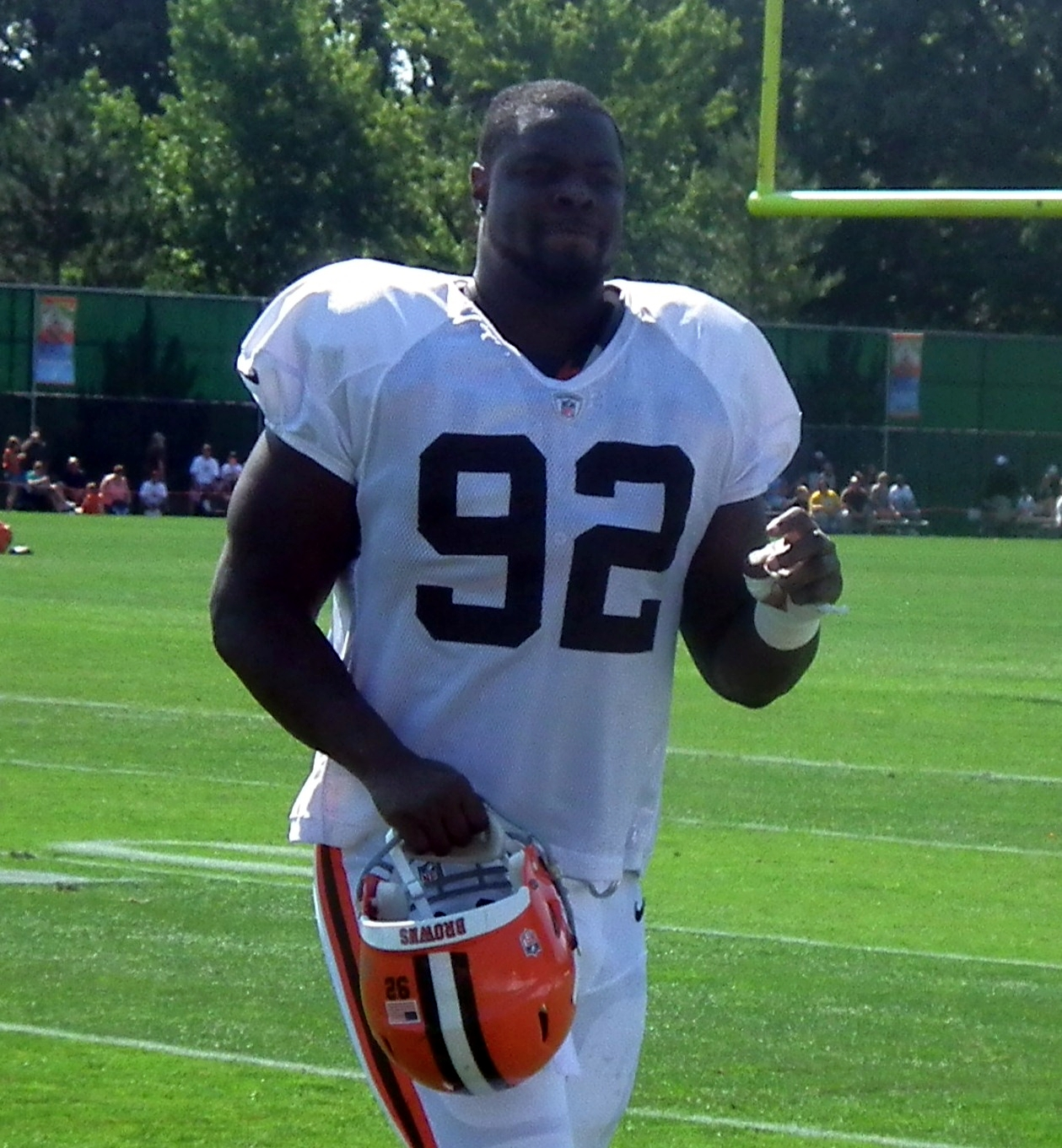 Frostee Rucker, a player on the National Football League.